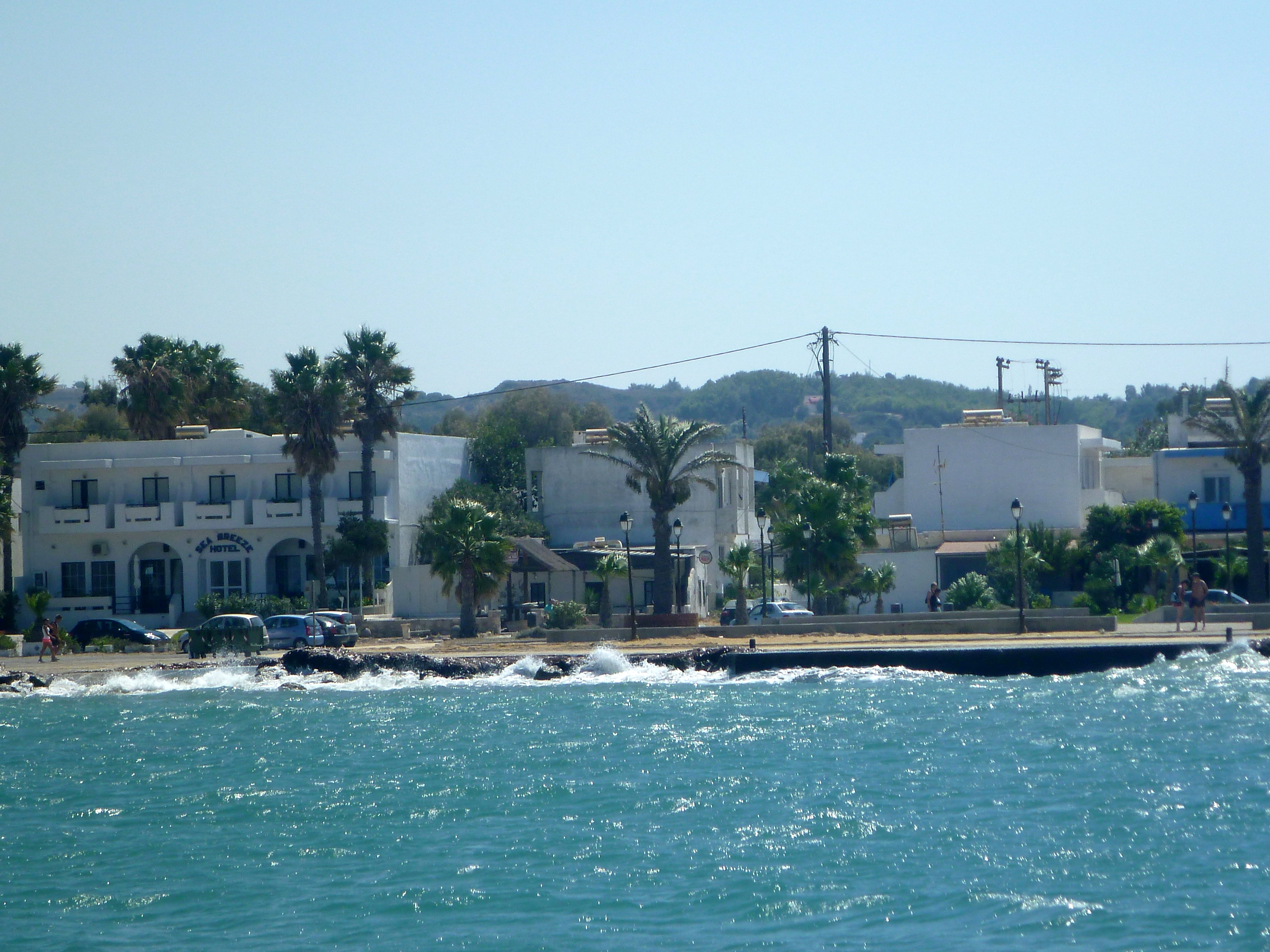 Holidays Greece